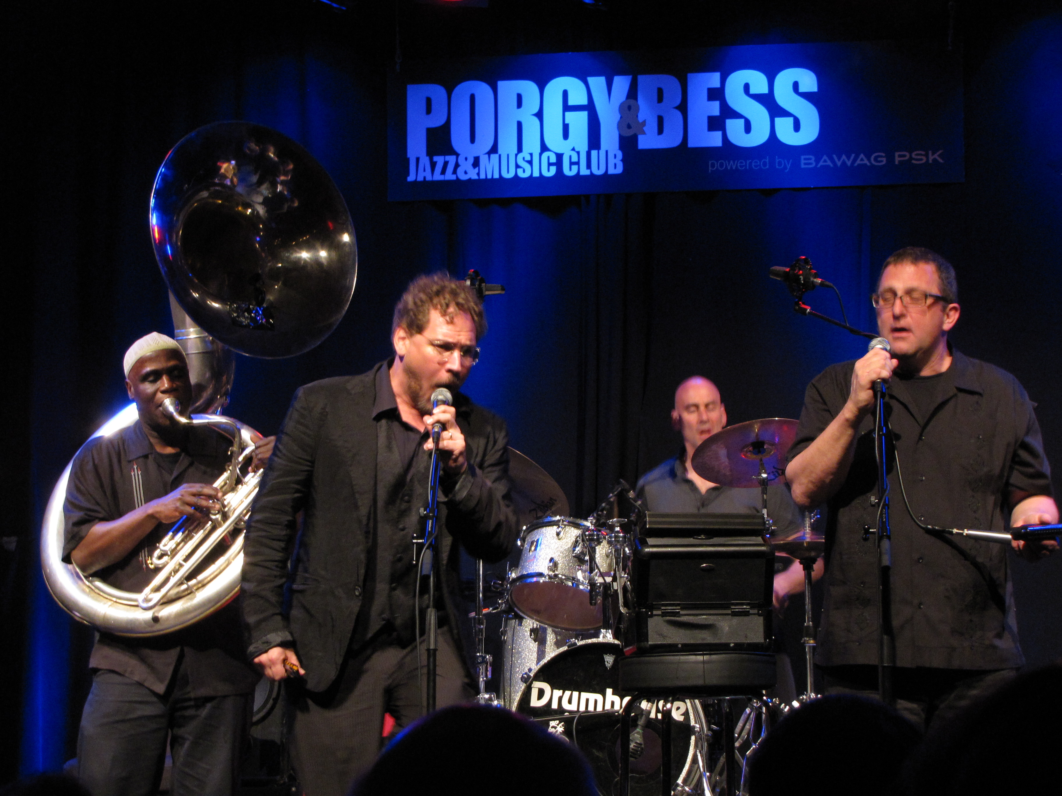 Hazmat Modine Live in Vienna